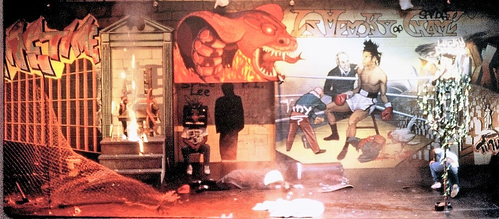 Squat Theatre set of Full Moon Killer - During Squat Theatre play 'Full Moon Killer' Previously published